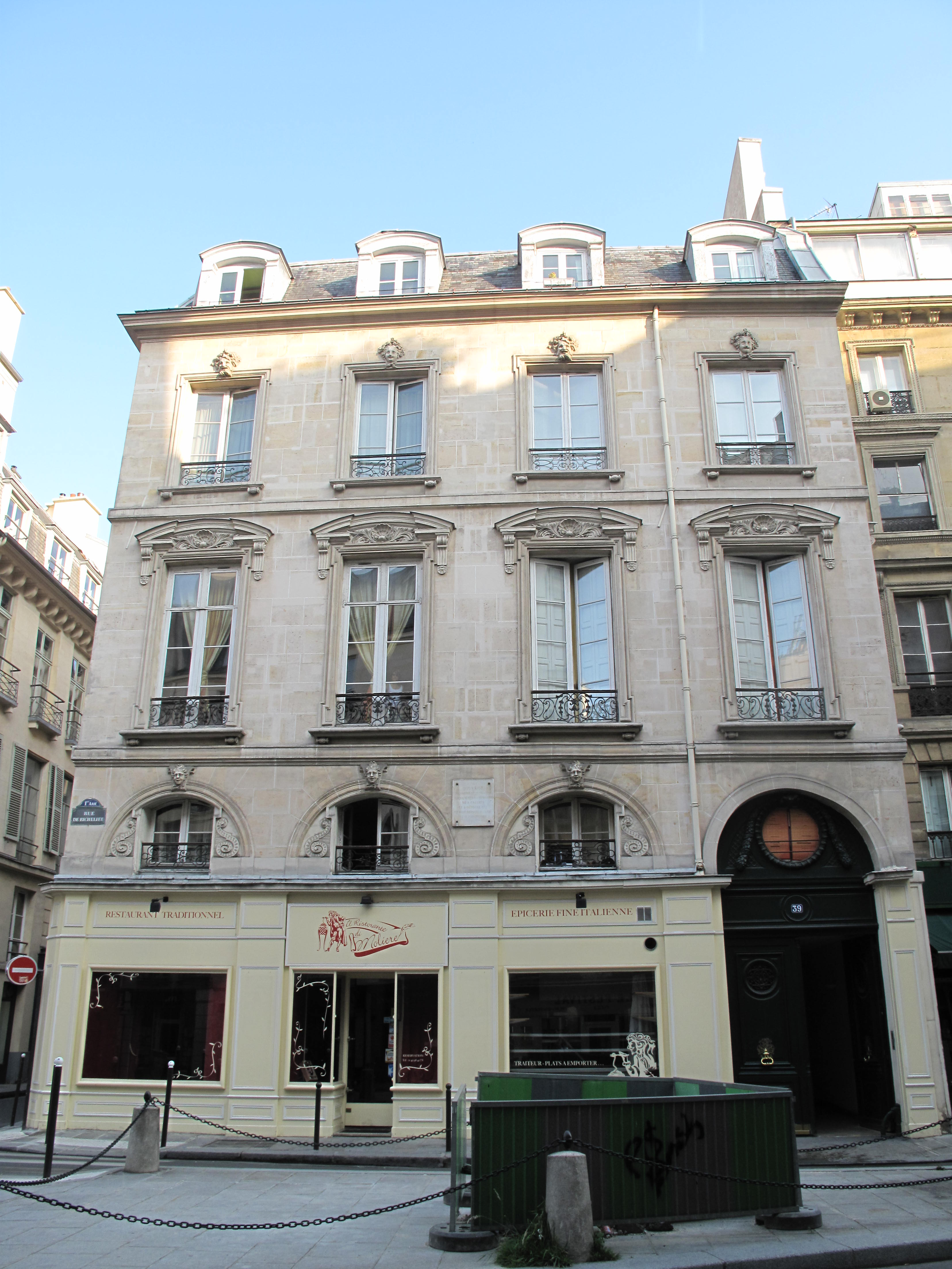 House where the philosophe Denis Diderot (1713-1784) died : 39, rue de Richelieu, Paris 1st arr.